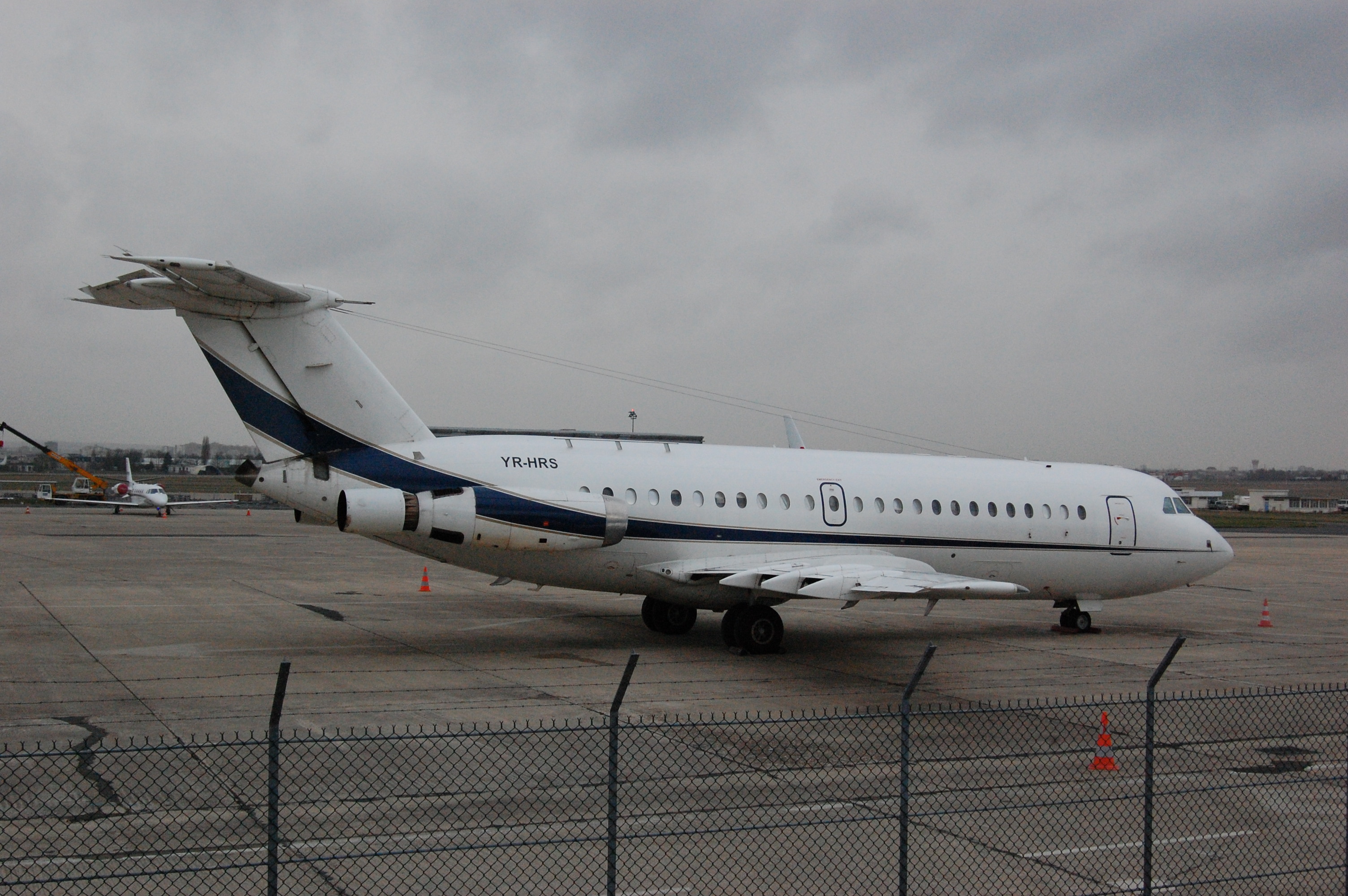 BAC-111 (YR-HRS) at Le Bourget Airport, France